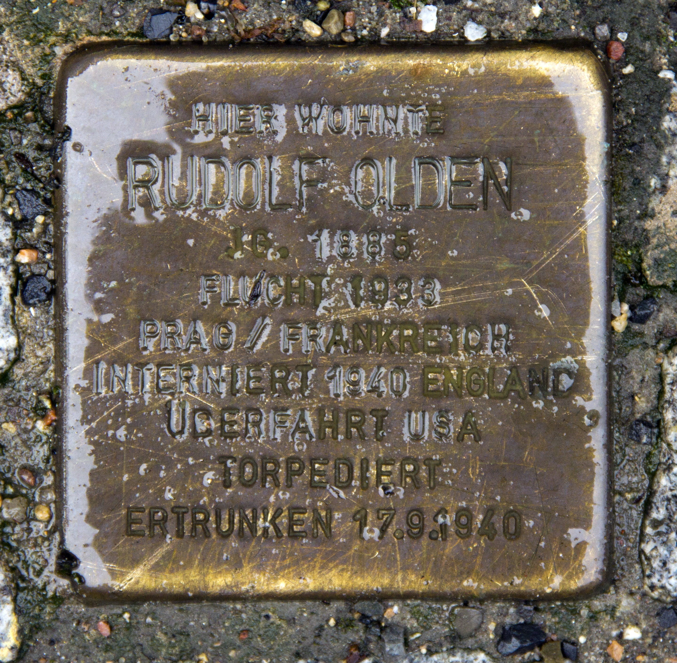 "Stolperstein" (stumbling block), Rudolf Olden, Genthiner Straße 8, Berlin-Tiergarten, Germany